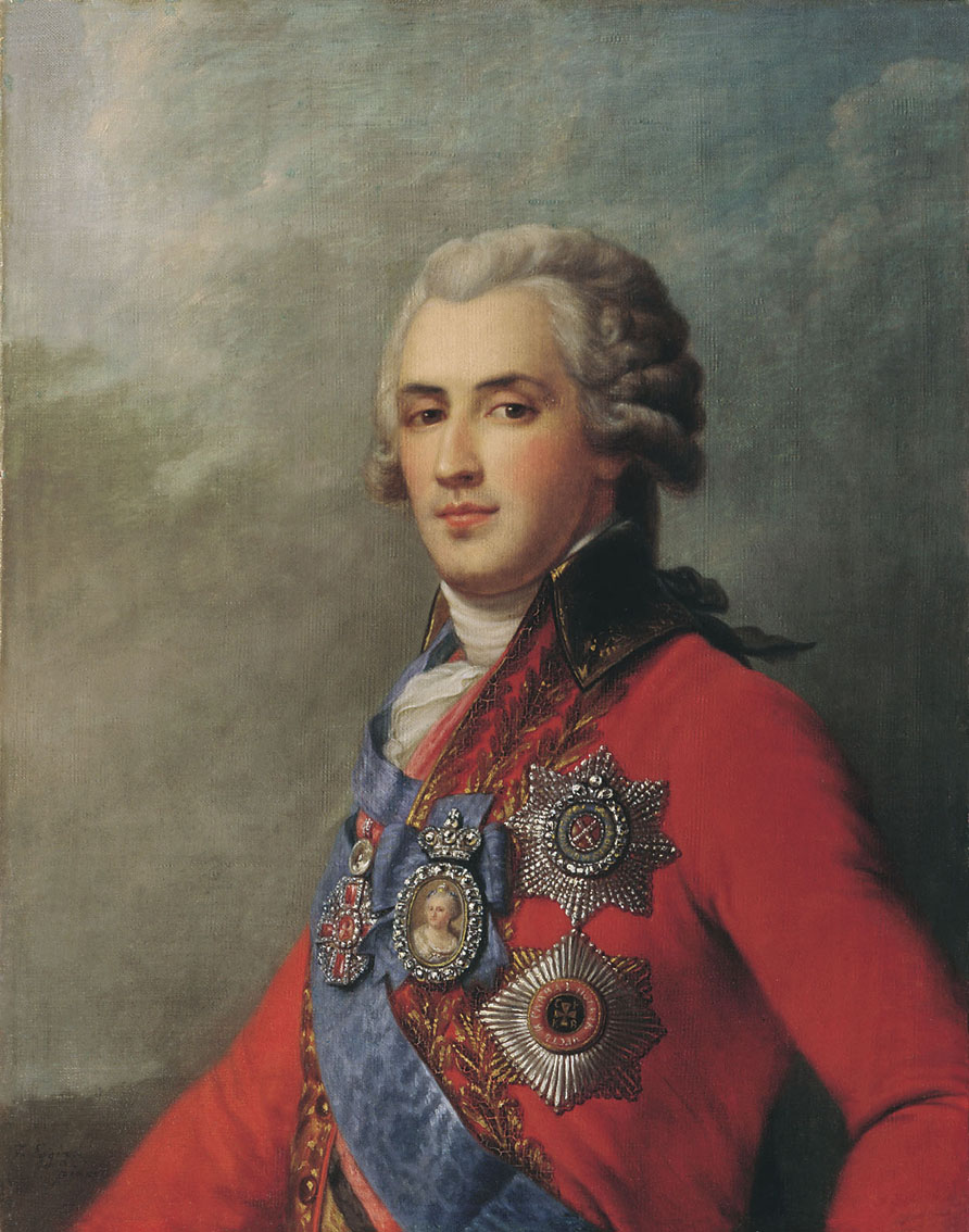 Portrait of Platon Zubov (1767-1822)